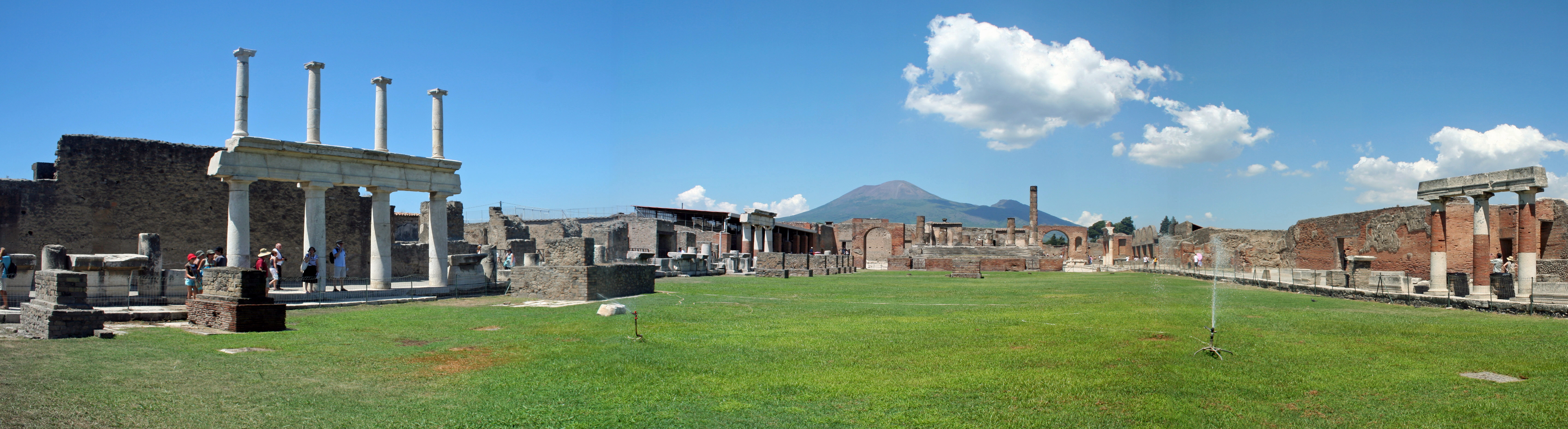 Panoramic view of the Forum of Pompeii with Vesuvius